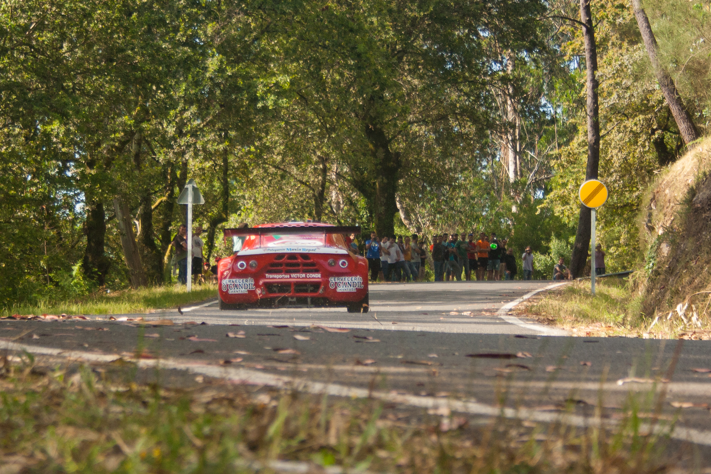 Speed Car GT 1000